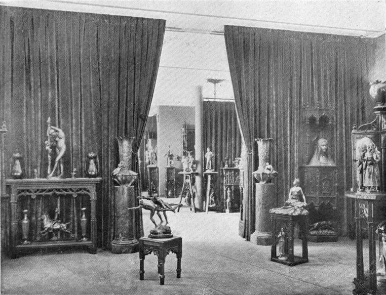 View of the Siot-Decauville showroom, 24 boulevard des Capucines in Paris, in 1909.